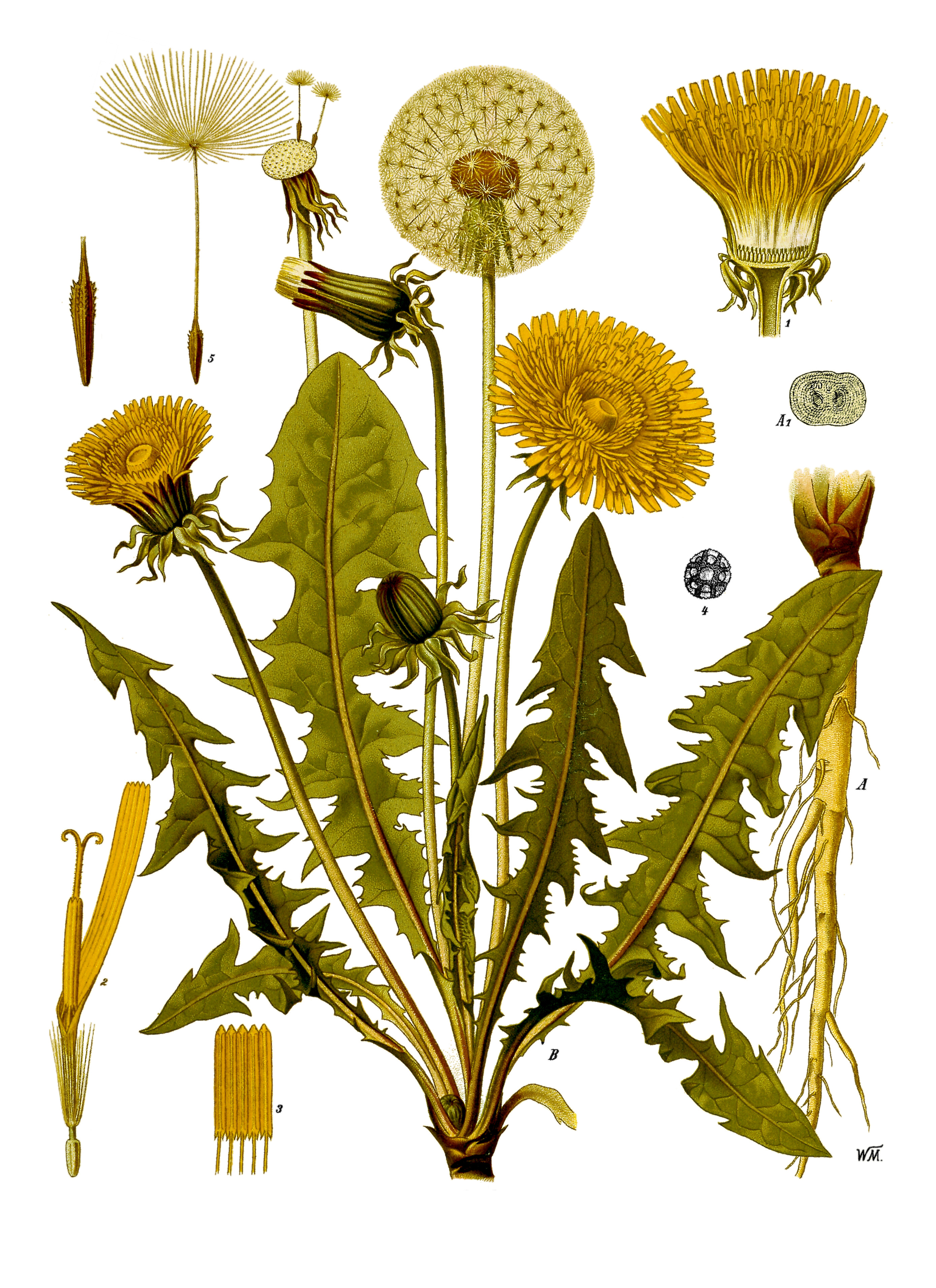 Without captions.